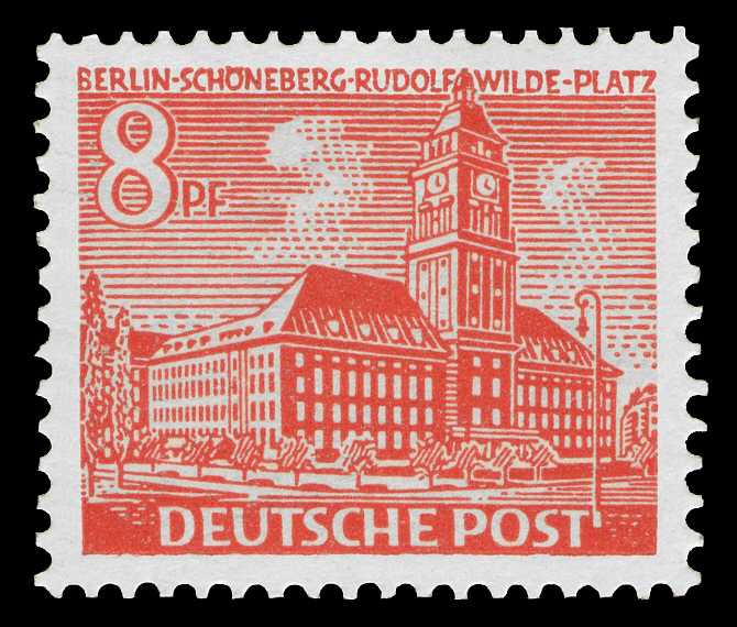 Definitive stamp series Buildings of Berlin (I)